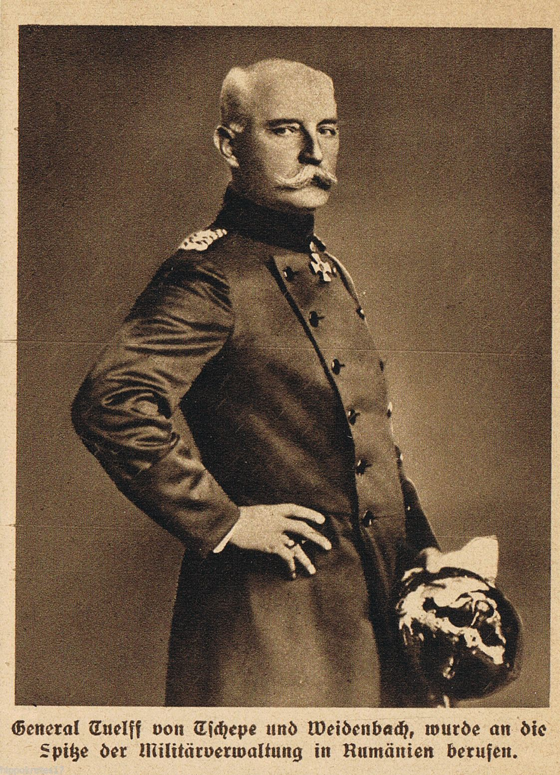 Erich Tülff von Tschepe und Weidenbach (1854-1934), Prussian general der infantry as military governor Romania during WWI in 1917.